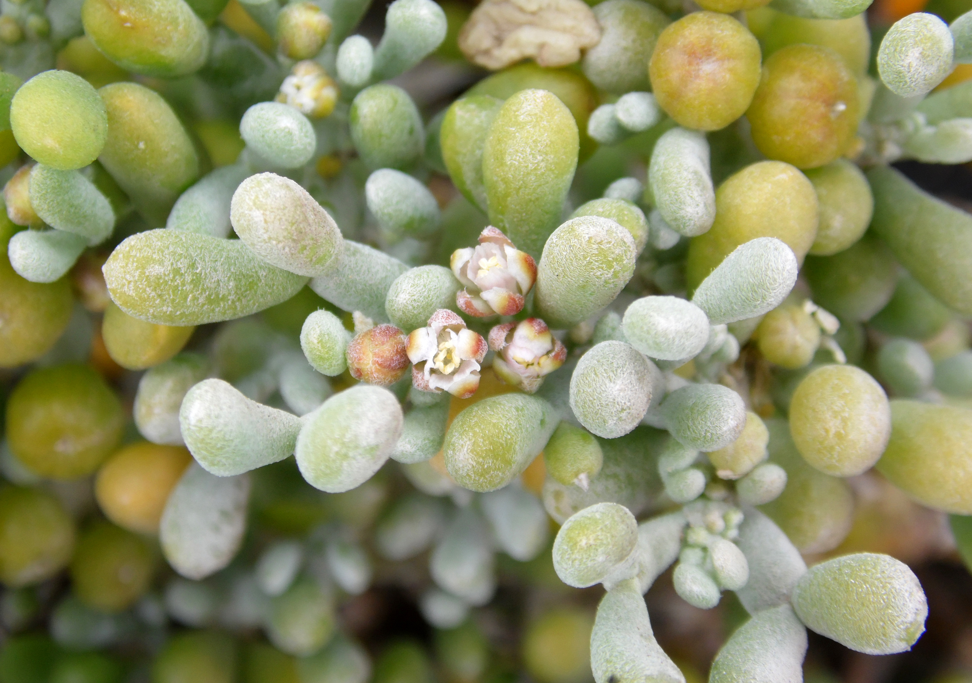 Tetraena fontanesii in Pozo de Izquierdo on Gran Canaria